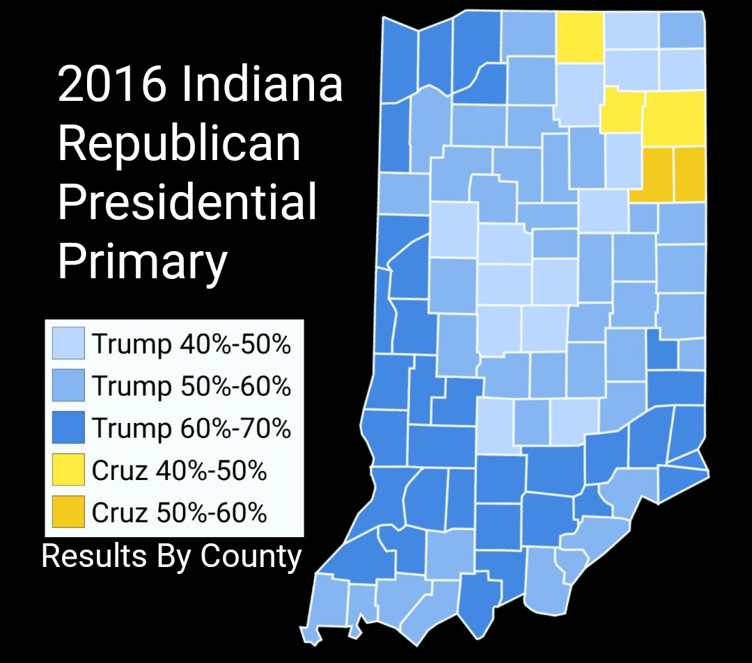 Map showing the results of the 2016 Republican Presidential Primary in Indiana by County.